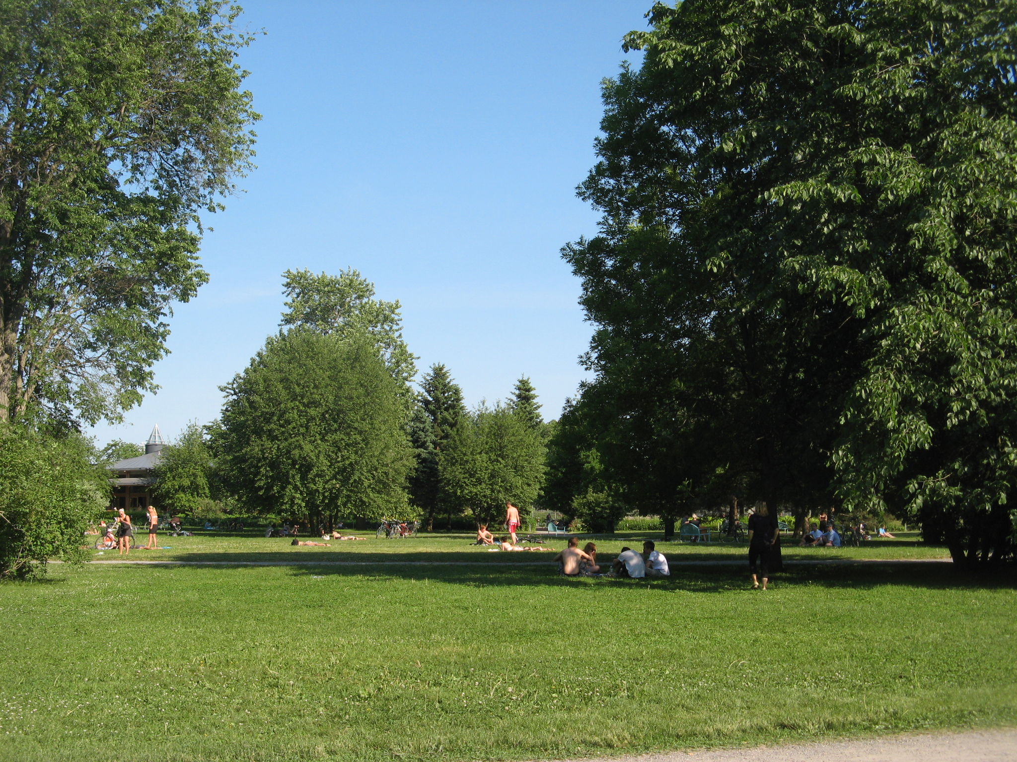 Summer in Kupittaanpuisto park.